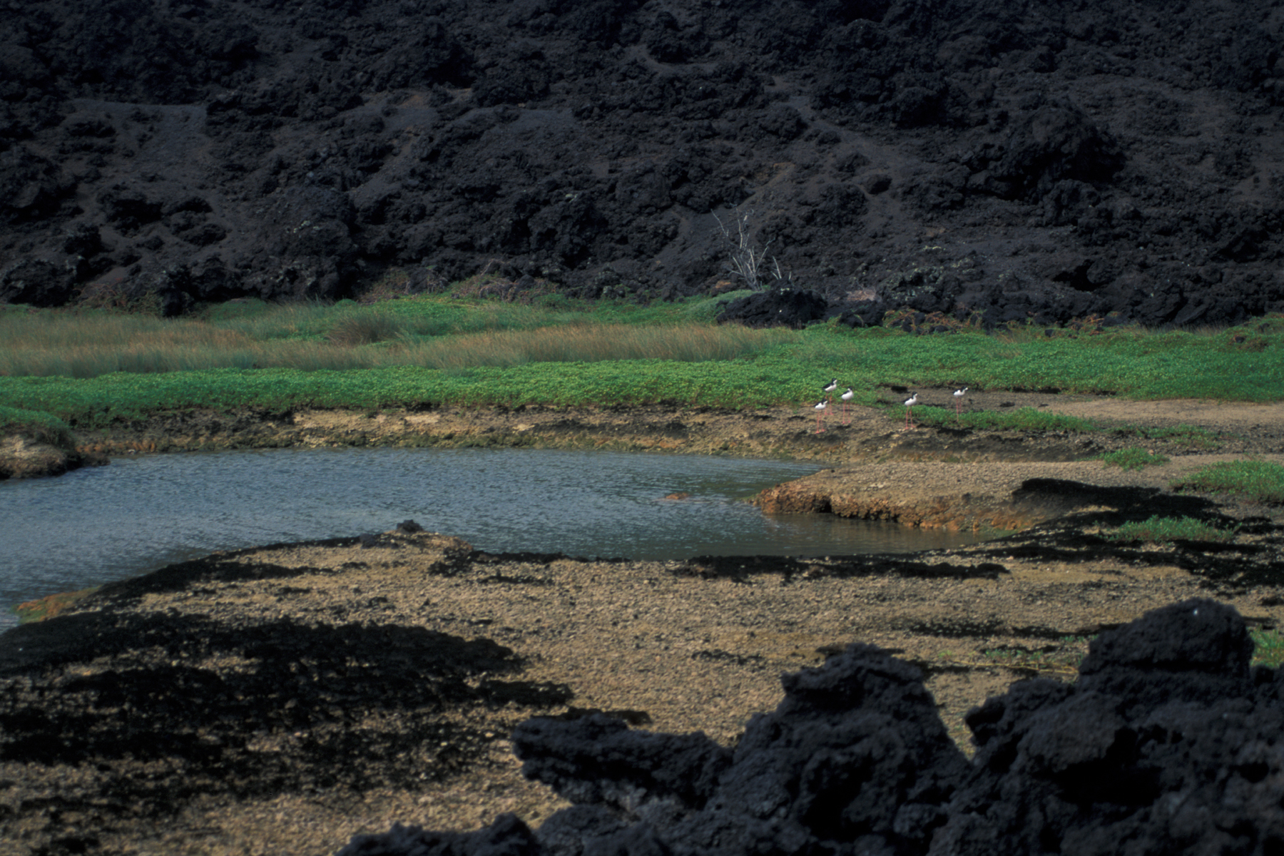 Sesuvium portulacastrum (with stilts). Location: Maui, Ahihi Kinau